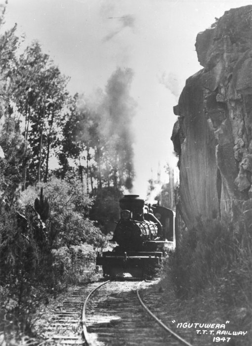 Inscription at bottom right - "Ngutuwera" T.T.T. Railway 1947 Steam locomotive alongside a rock face on the Taupo Totara Timber Company railway line, in 1947. Photographer unidentified. Ref: PAColl-5521-14 The Ngutuwera rock cutting is in the gully at what is now Lichfield, near the dairy factory. The Kinleith Branch crosses the gully on a large embankment.